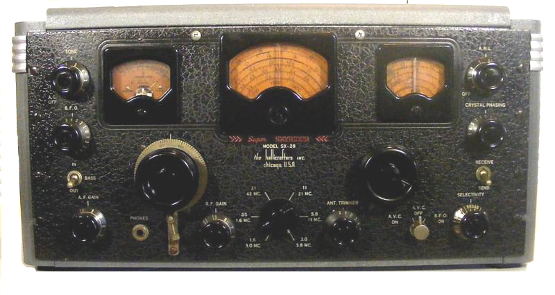 SX-28 receiver, Front view